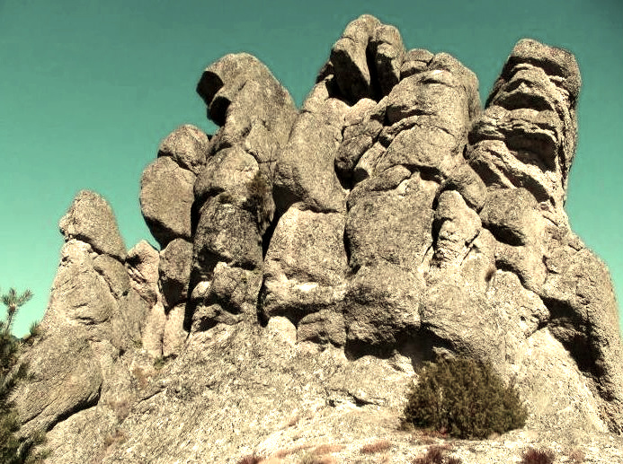 Kazkaya BGG